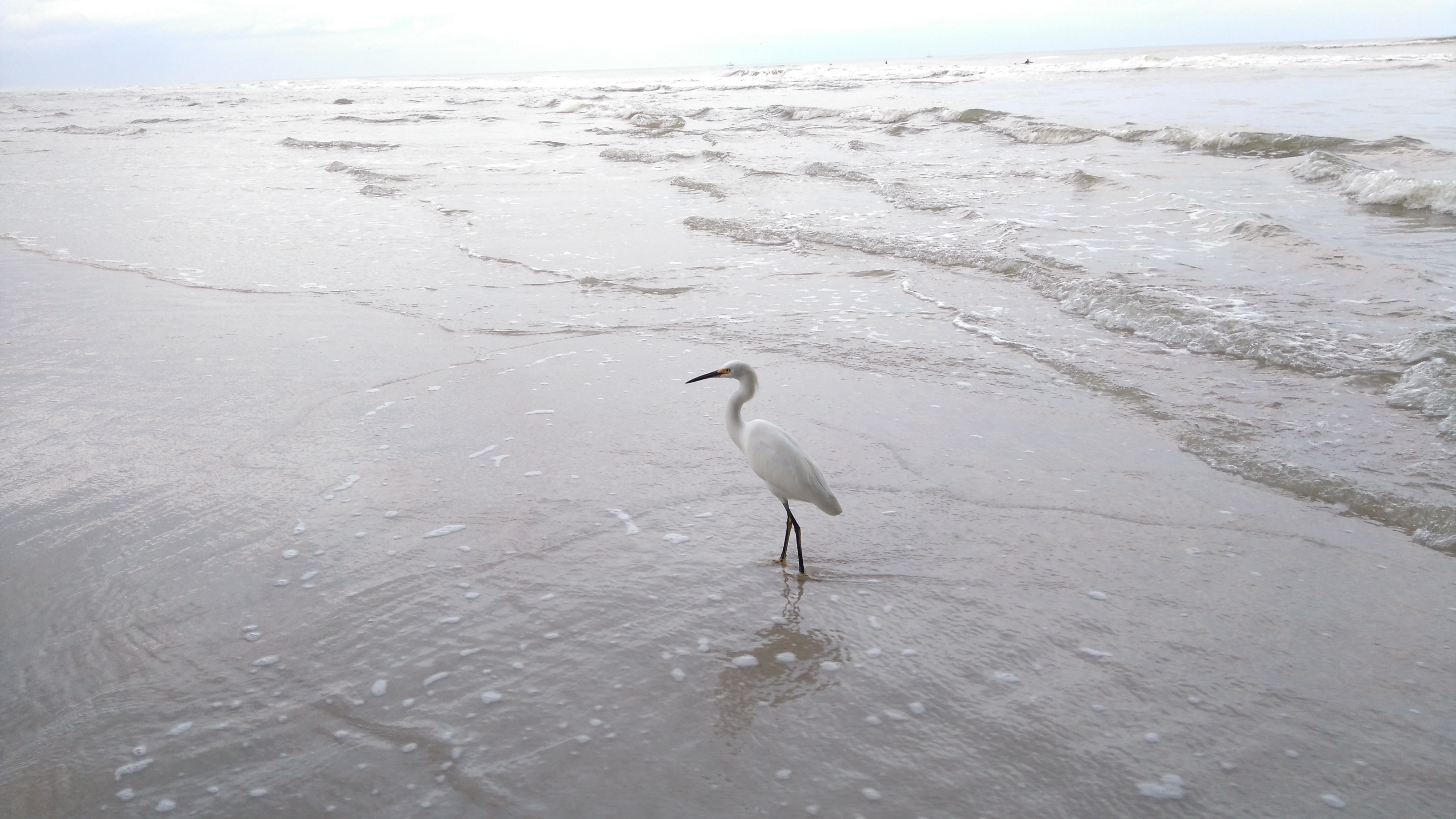 Snowy egret at Daytona Beach